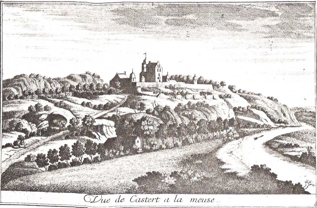 Castle Caestert, Belgium